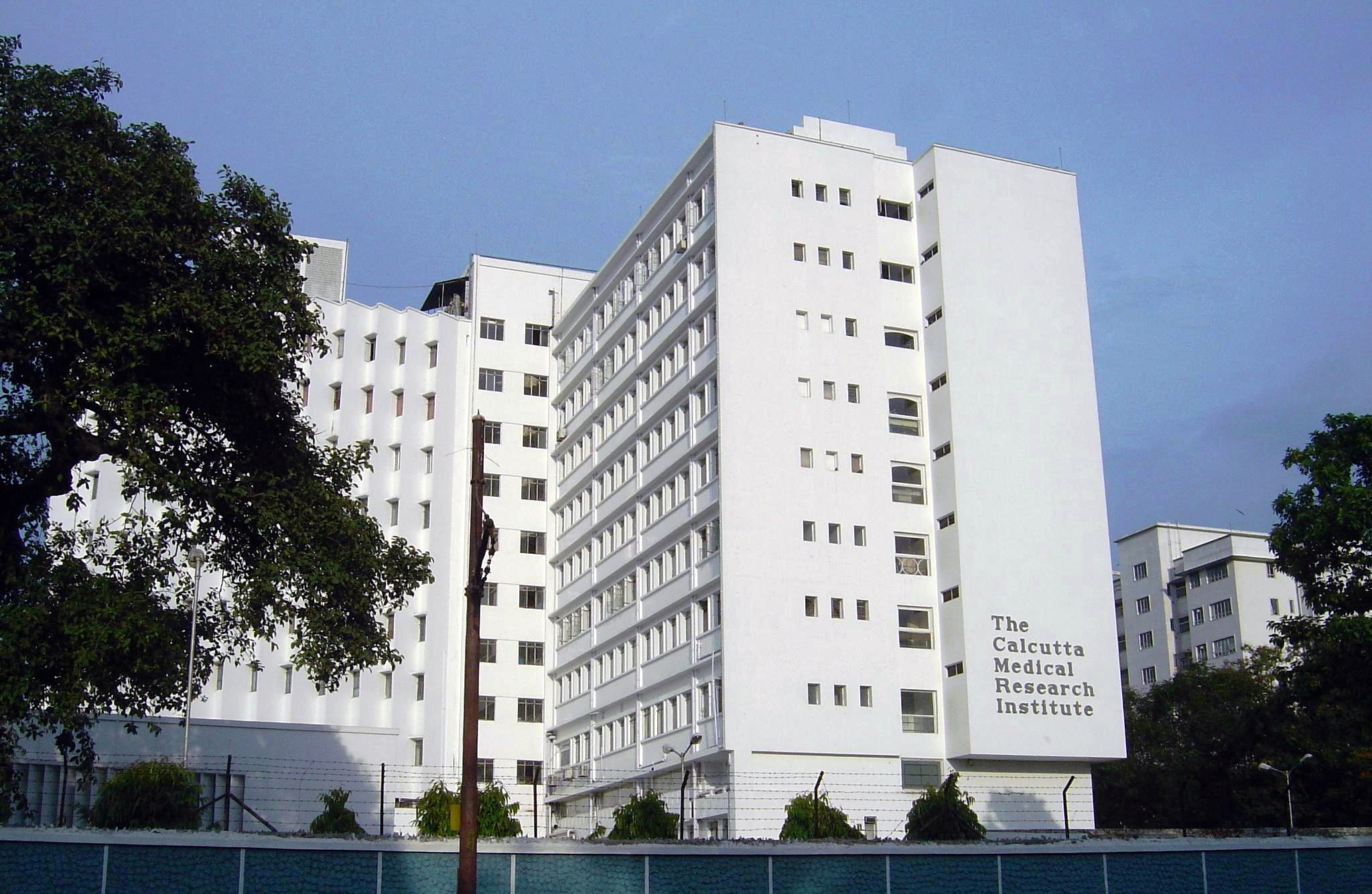 CMRI Hospital